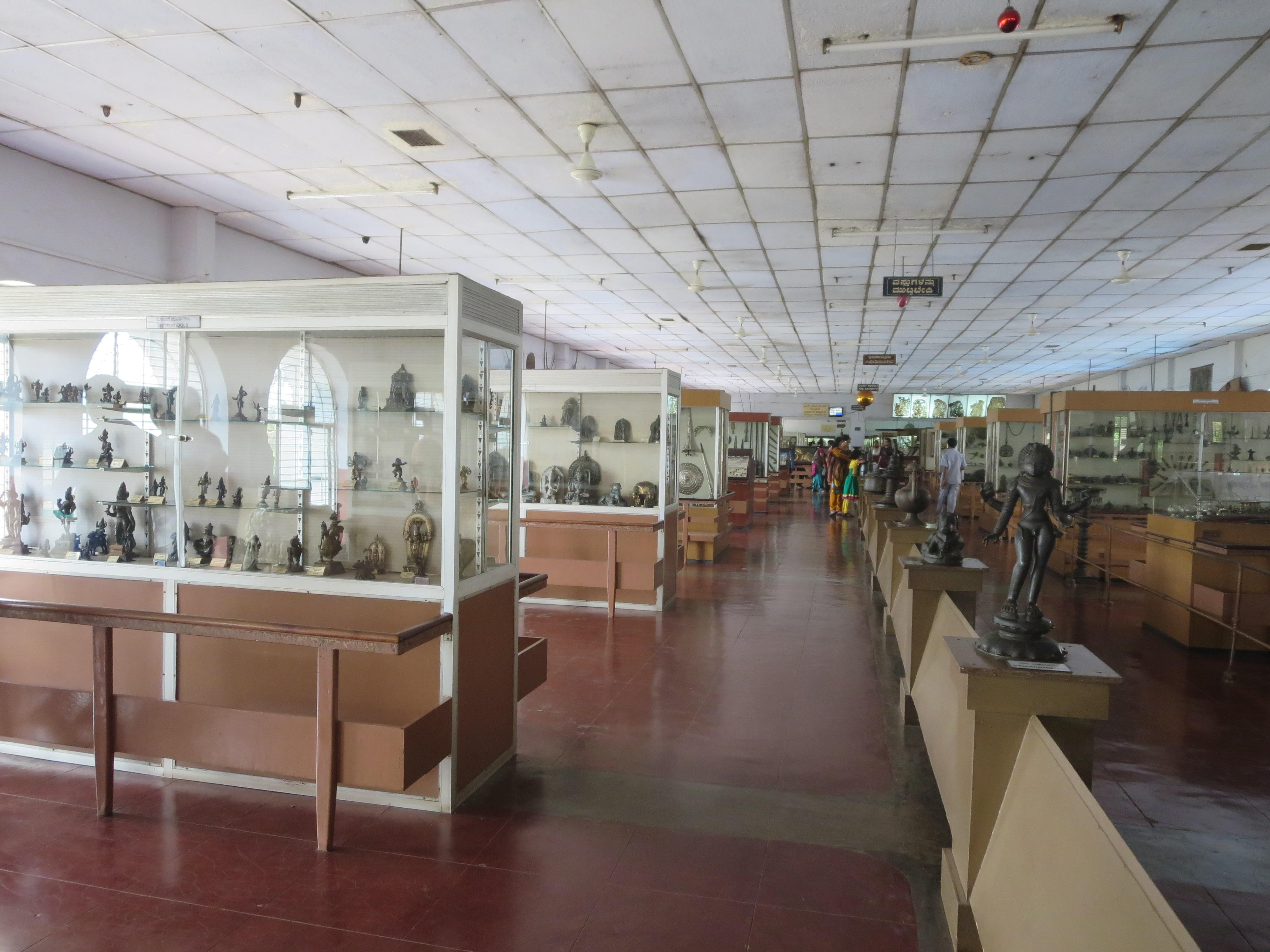 Manjusha Museum In Dharmasthala